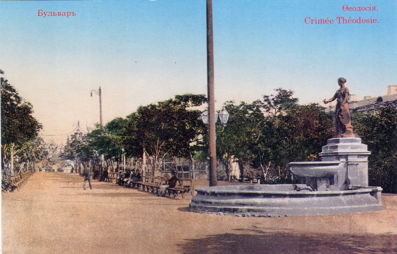 Garden park and fountain, in Crimea, the Ukraine.